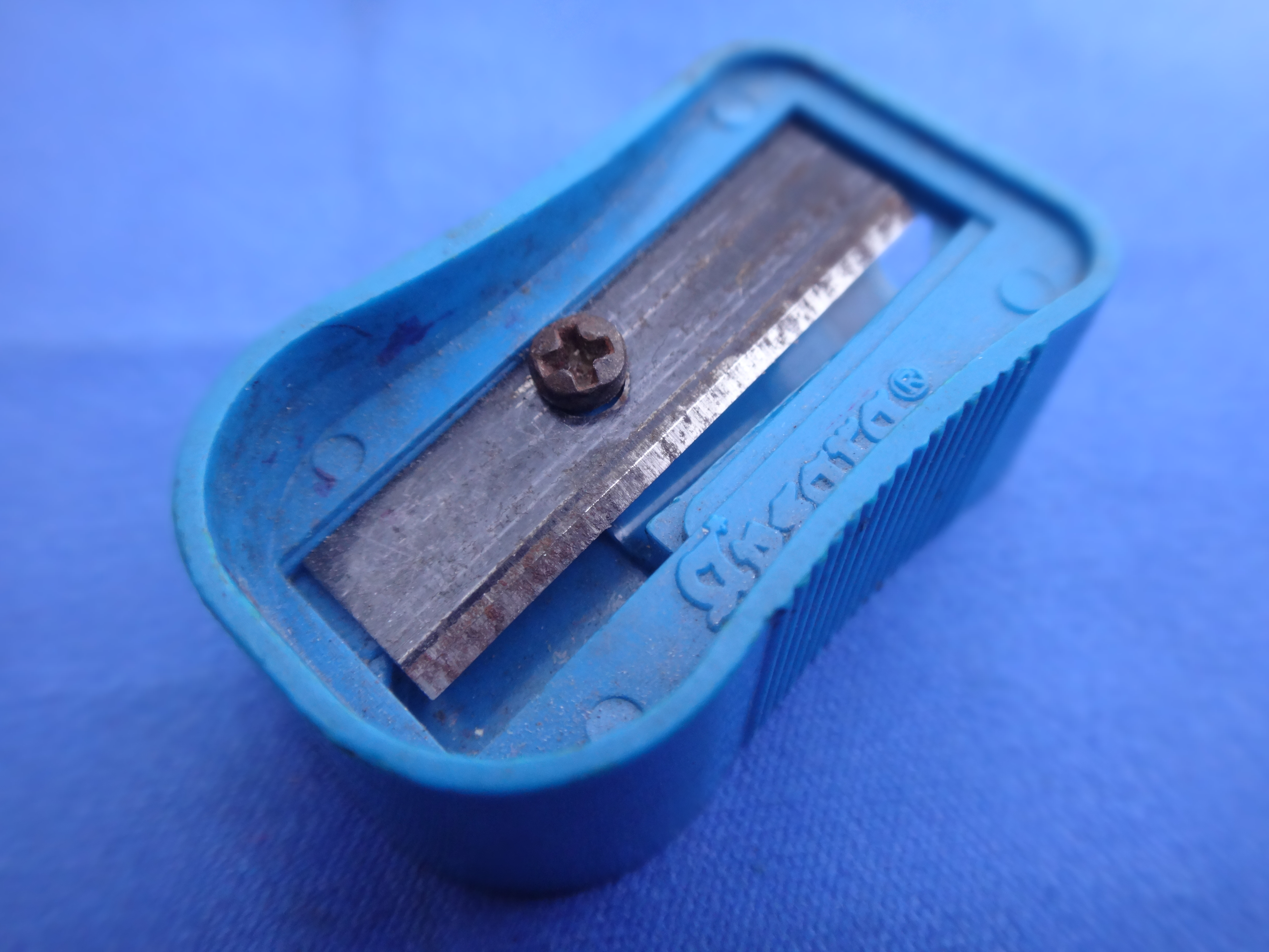 Young children used to have one pencil, eraser and a sharpener and the sharpeners are available in different forms and in different sizes. Nowadays, such sharpeners are manufactured using plastic, metal or wood.